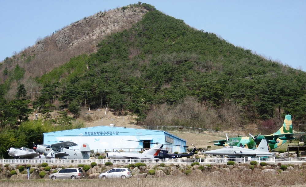 Muan Hodam Aerospace Museum